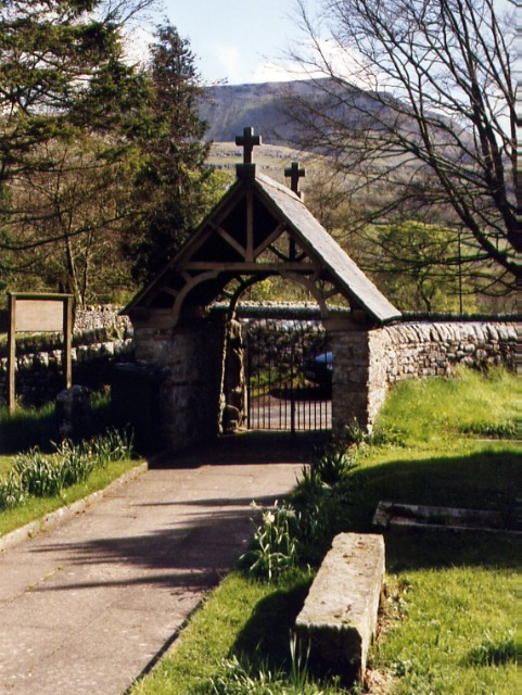 Lych gate, St. Leonard's churchyard, Chapel-le-Dale